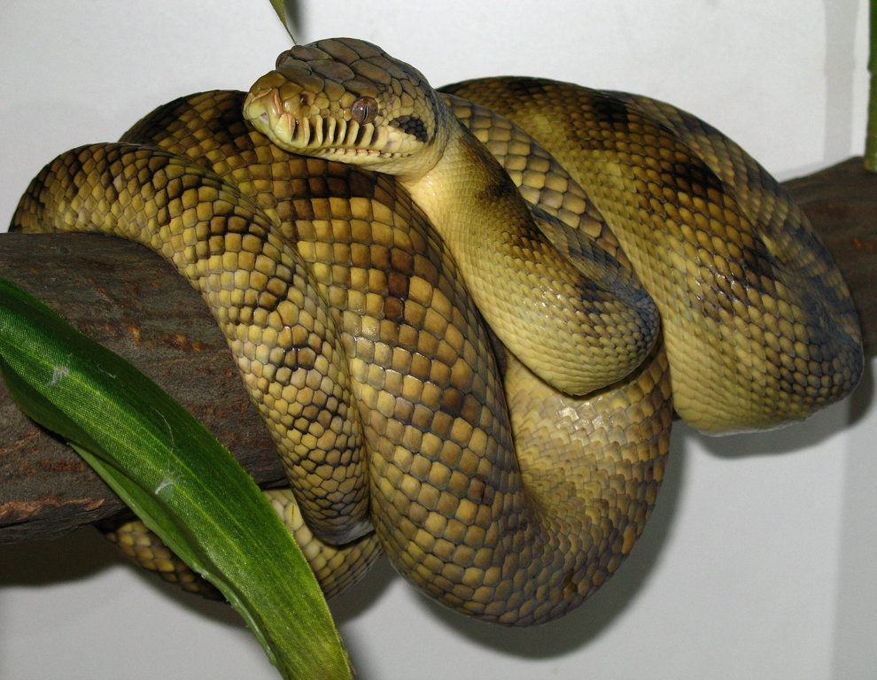 Adult High-Yellow Sorong Amethystine Scrub Python (Morelia amethistina). This animal lives in captivity.